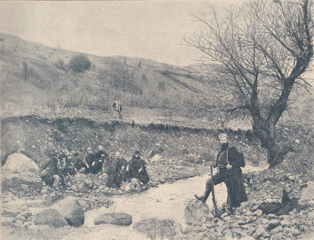 cheta of Slaveiko Arsov